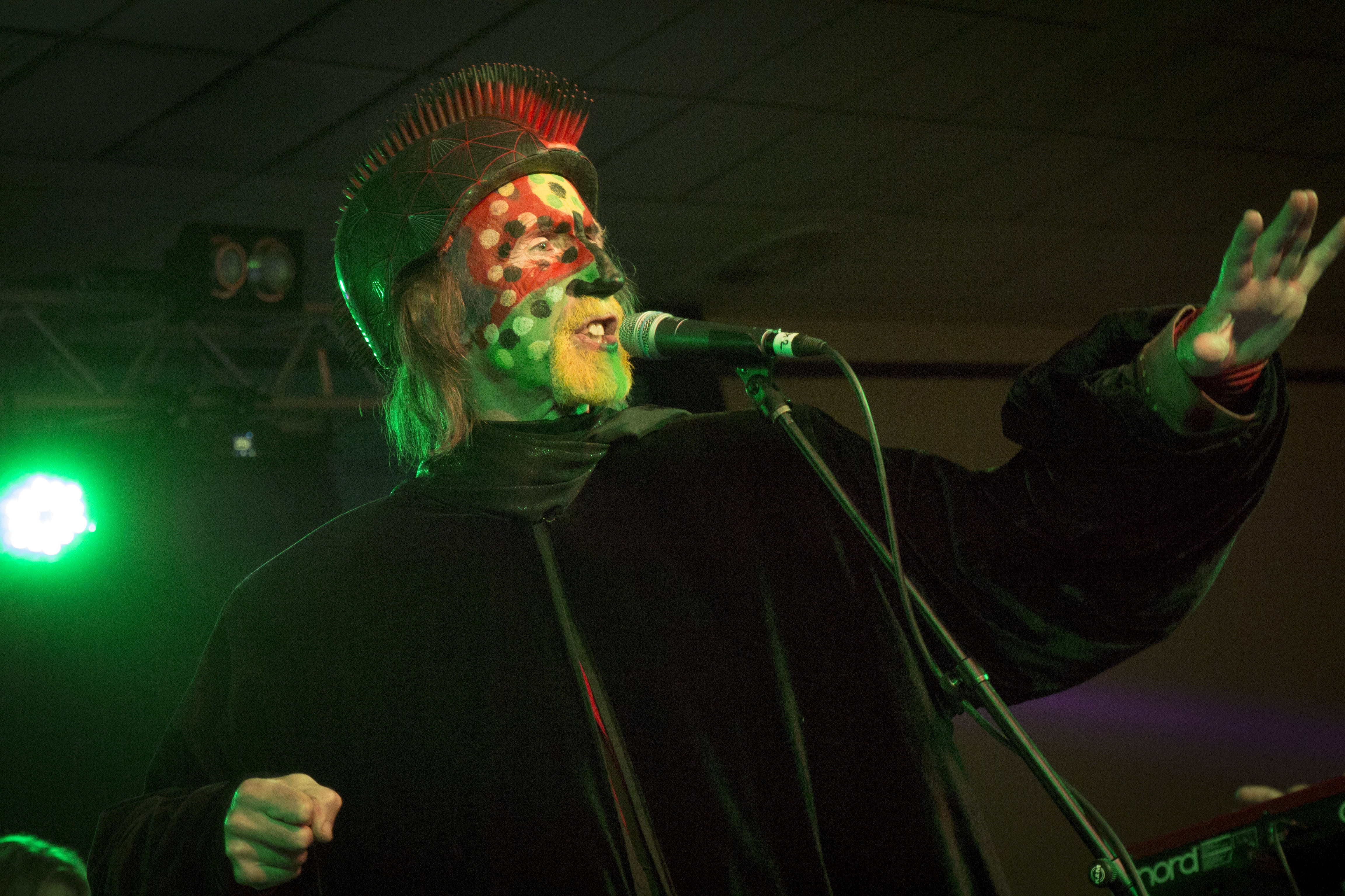 Musicport 2014